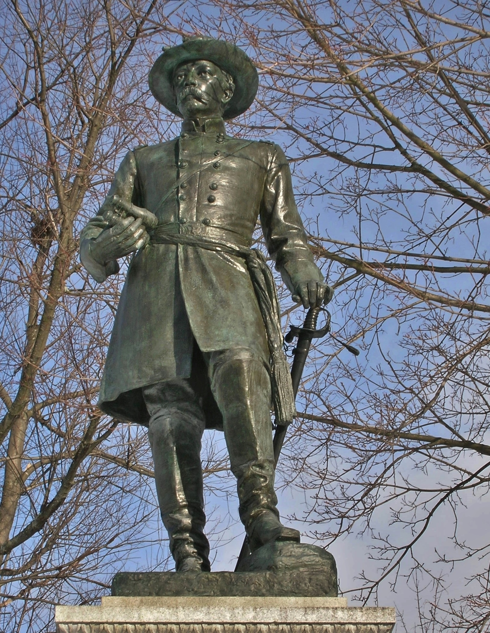 Photograph of the monument to Civil War General Griffin A. Stedman, sculpted by Frederick Moynihan (1900), located in Hartford, Connecticut.